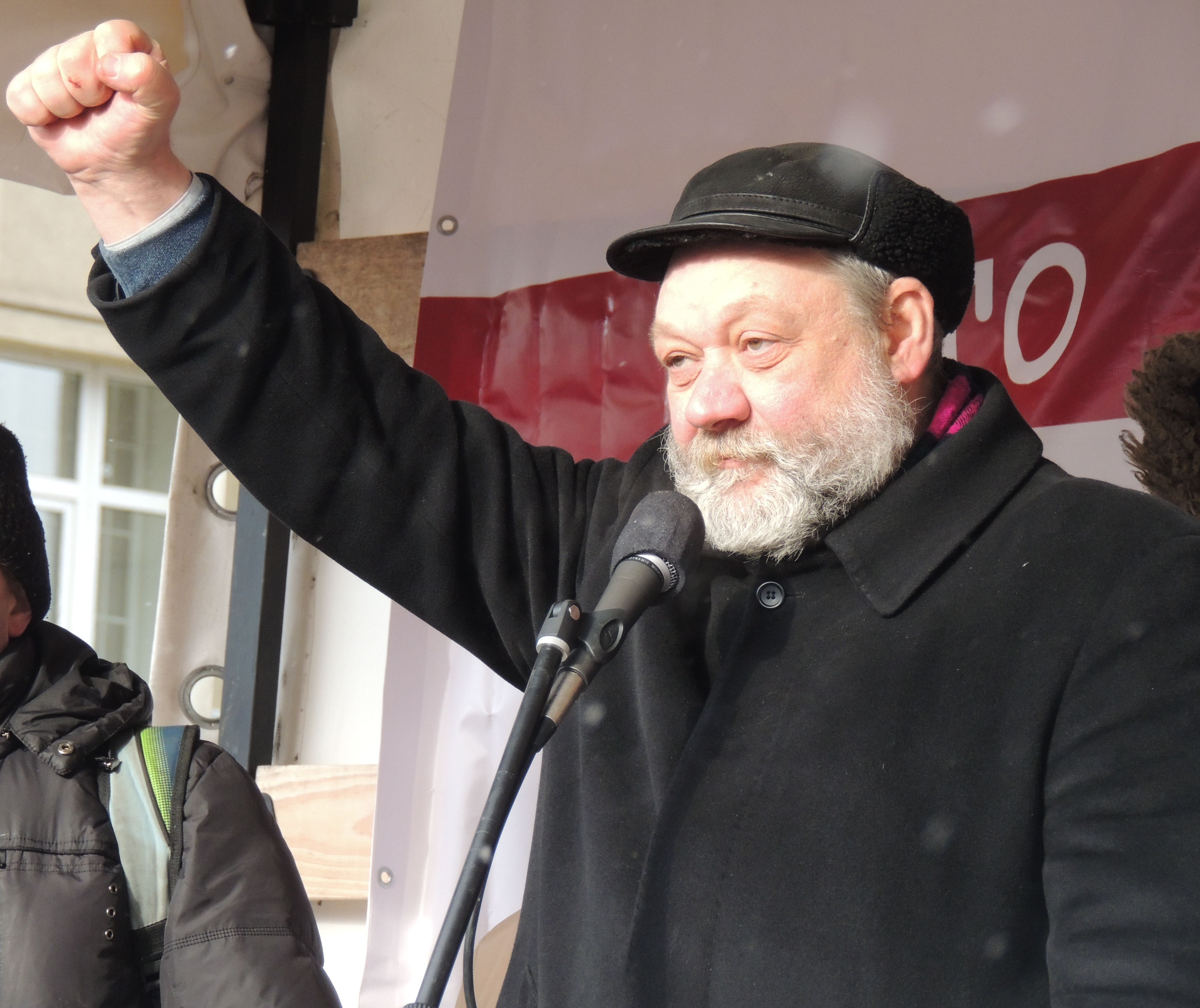 Ilya Konstantinov, opposition activist, Russia, speaks at Moscow opposition rally "for the social rights of Muscovites" 2